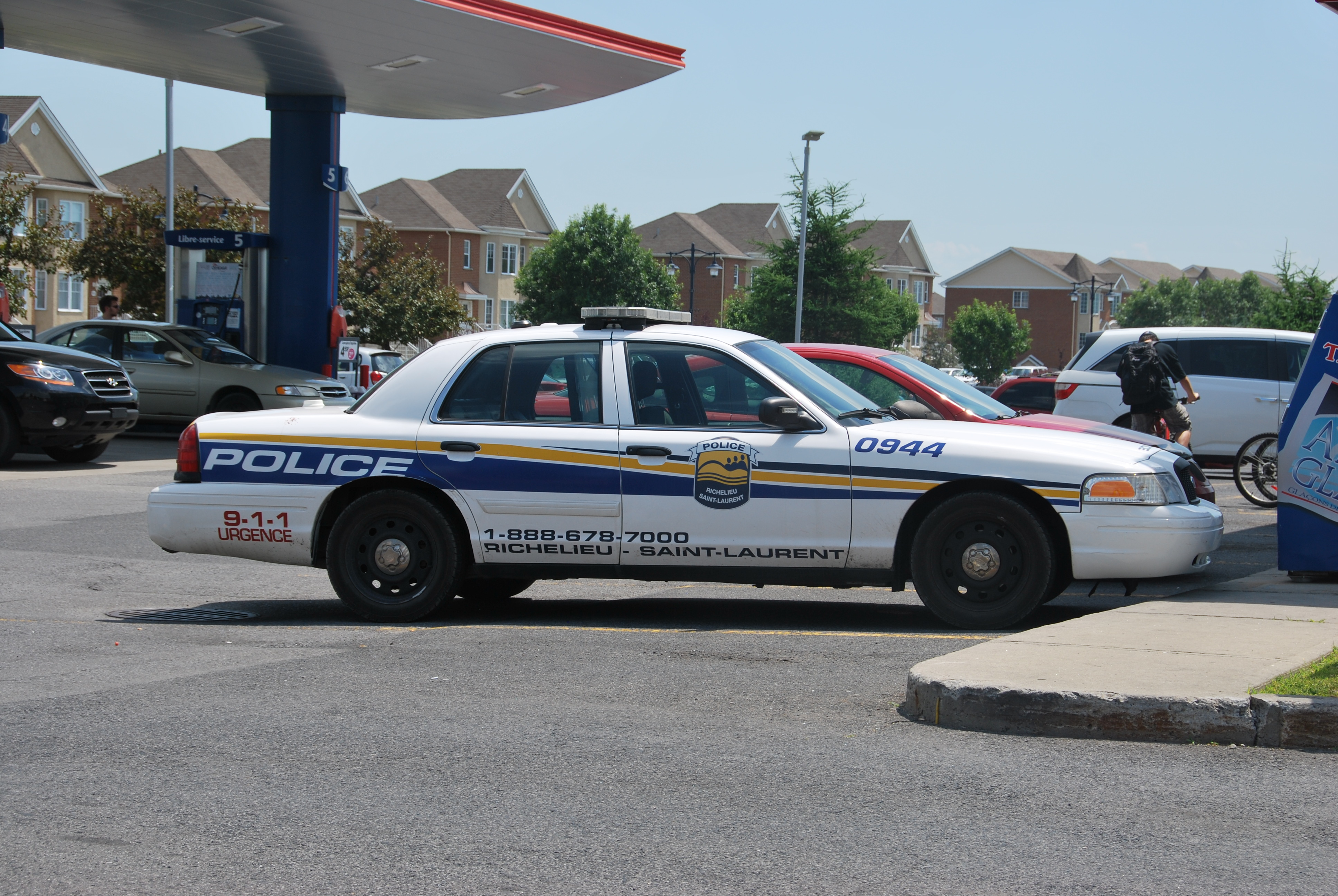 Richelieu-Saint-Laurent police car in Saint-Basile-le-Grand, Quebec, Canada.